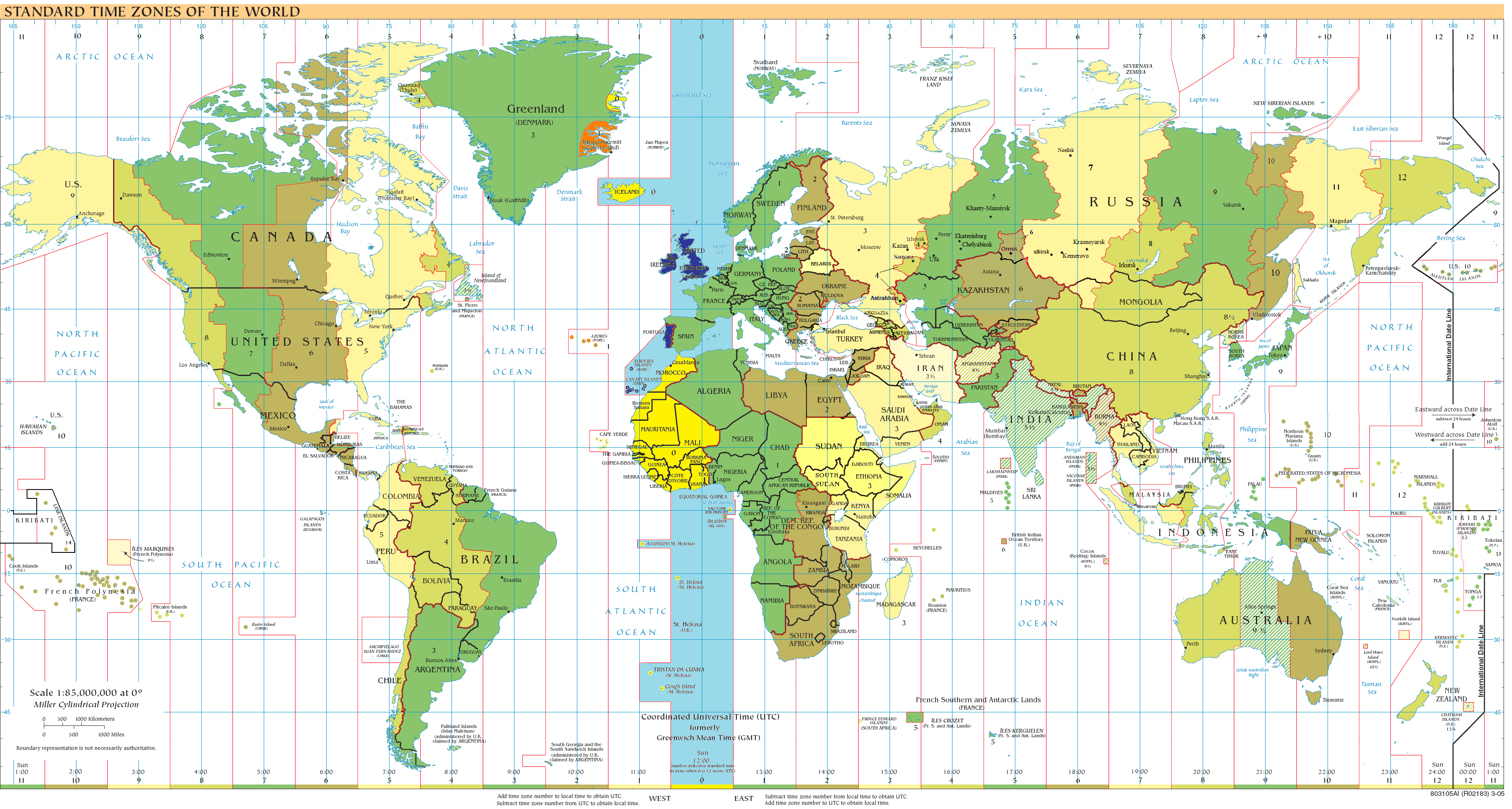 UTC+0, 2011